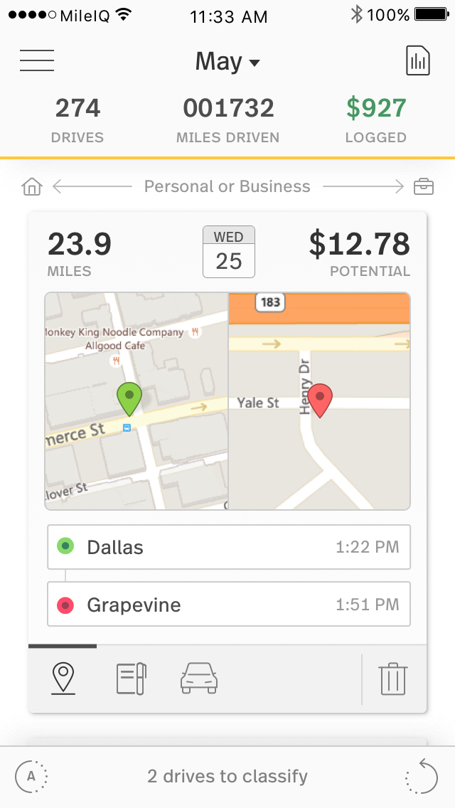 MileIQ drive screen.